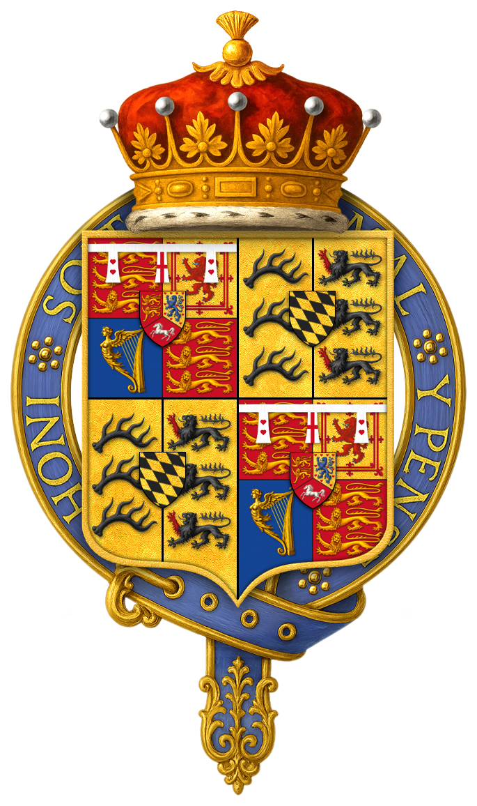 Garter-encircled shield of arms of Alexander Cambridge, 1st Earl of Athlone, KG, as displayed on his Order of the Garter stall plate in St. George's Chapel.